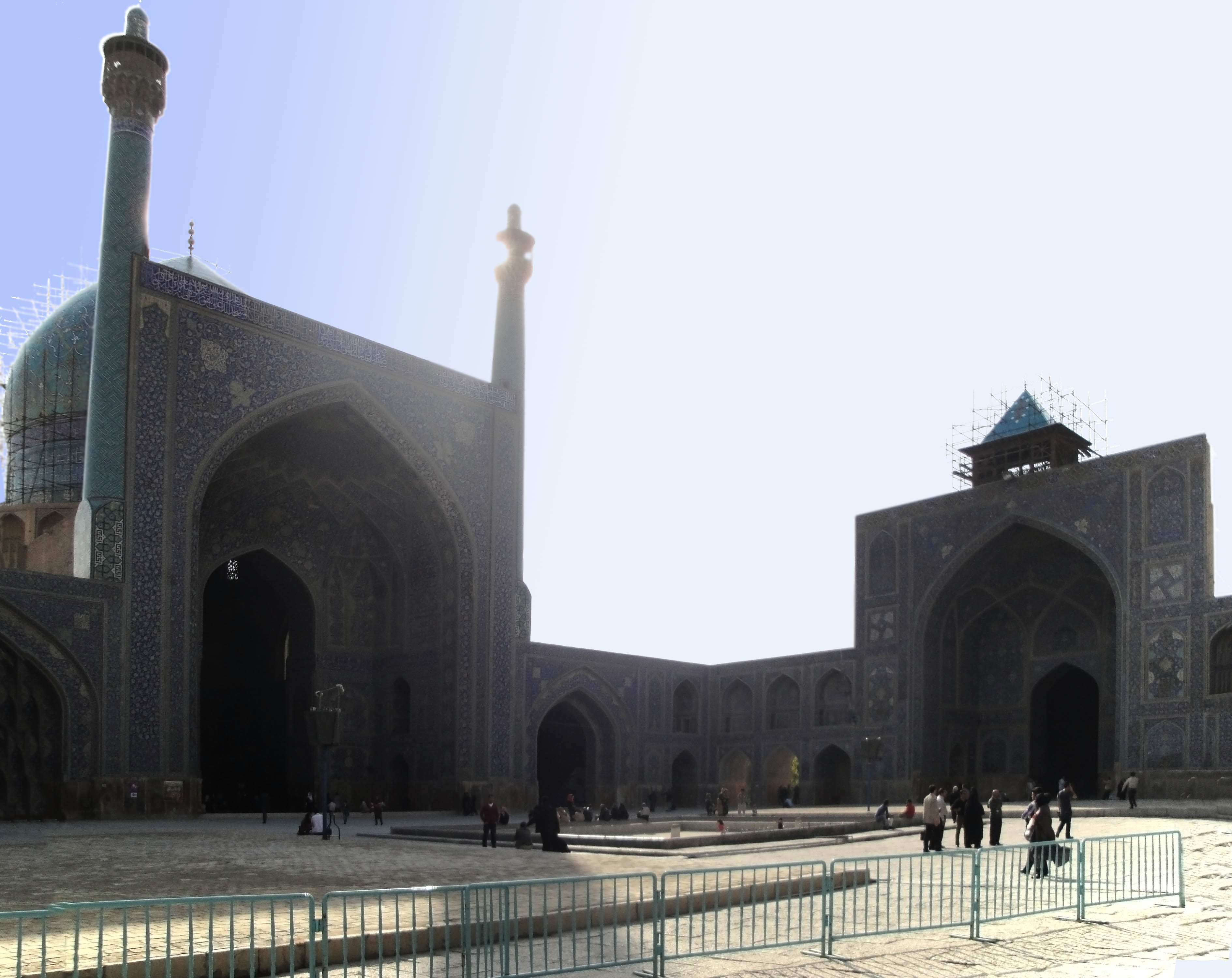 Imam Mosque Isfahan in 2013